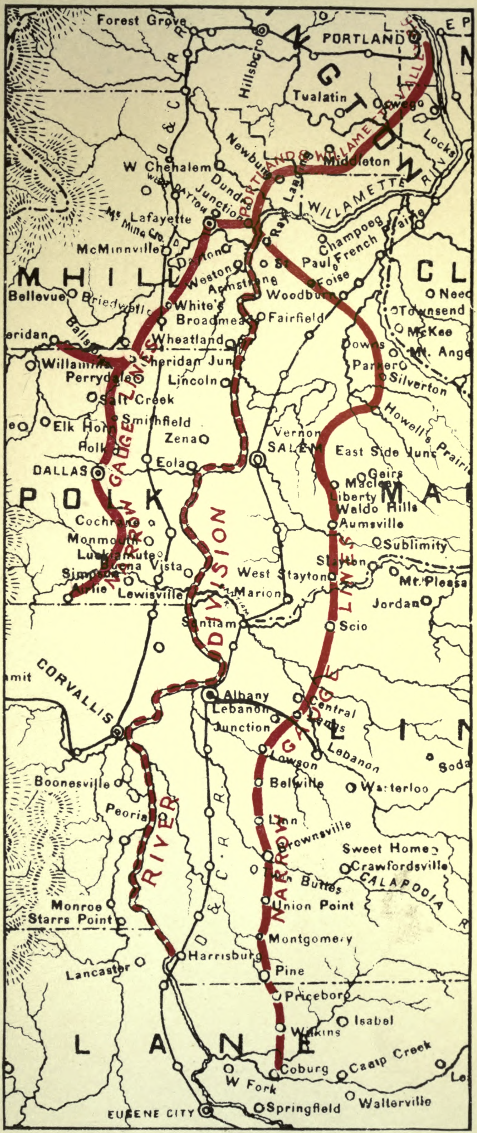 Route of Narrow Gauge Railroad in the Willamette Valley. From Oregon Historical Quarterly.